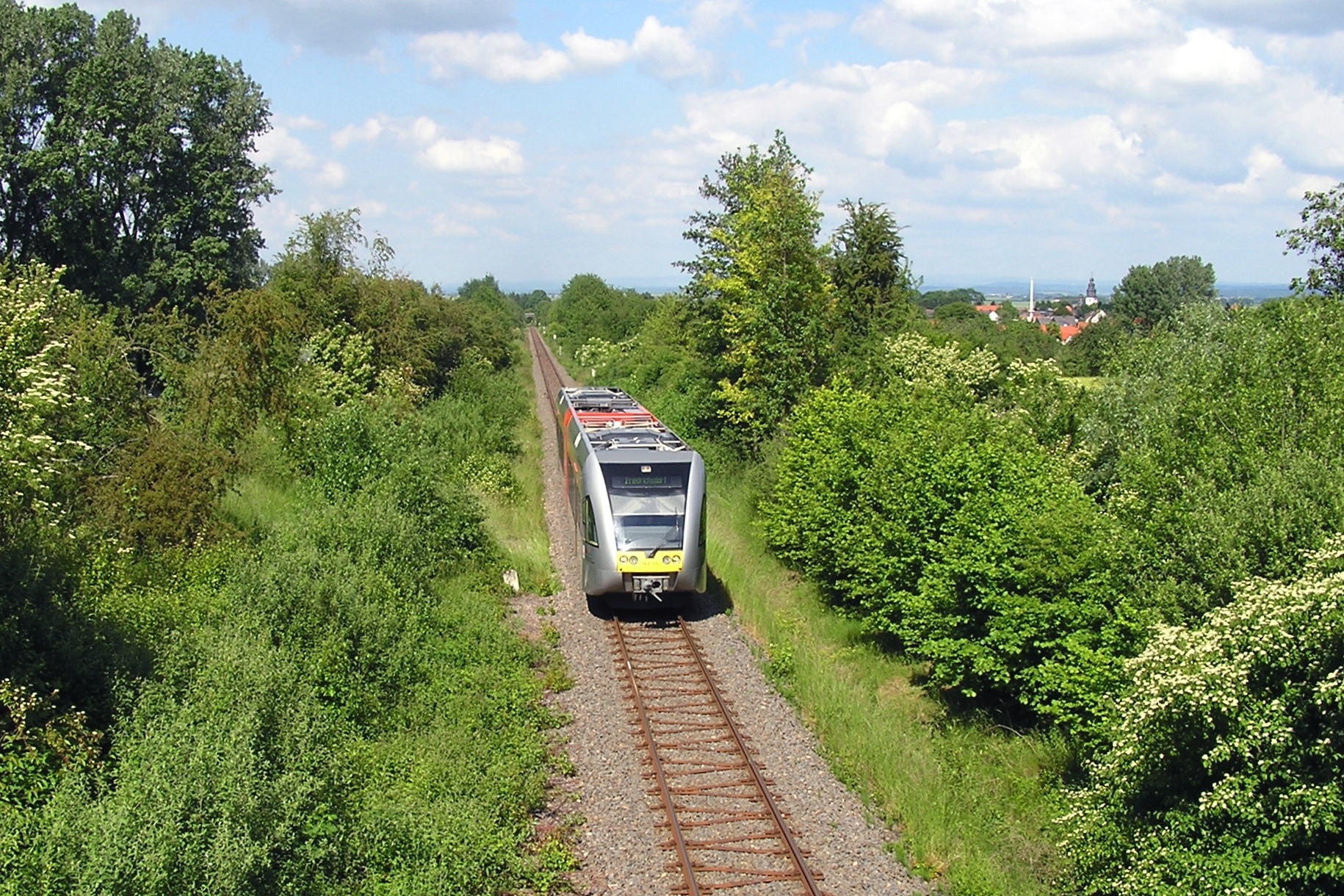 GTW 2/6 on the Brunnenbahn between Rosbach-Rodheim and Friedrichsdorf-Burgholzhausen